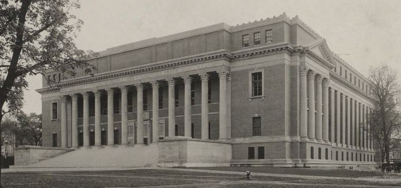 Cropped version of File:HarvardUniversity WidenerLibrary ExteriorFront c1915.jpg